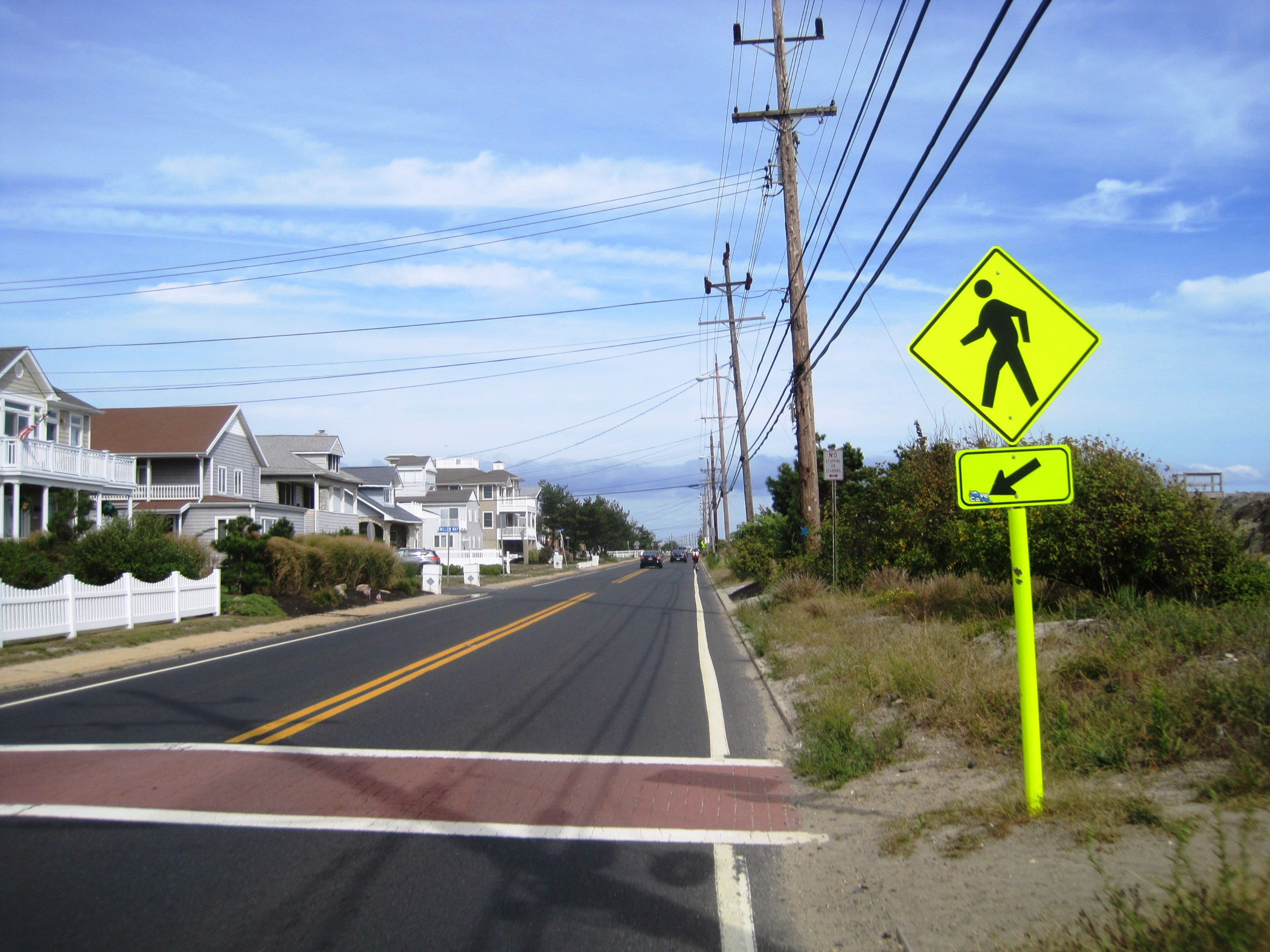 Photo showing Normandie, New Jersey, an unincorporated community within Sea Bright. Photo taken along northbound New Jersey Route 36 at Willow Way.